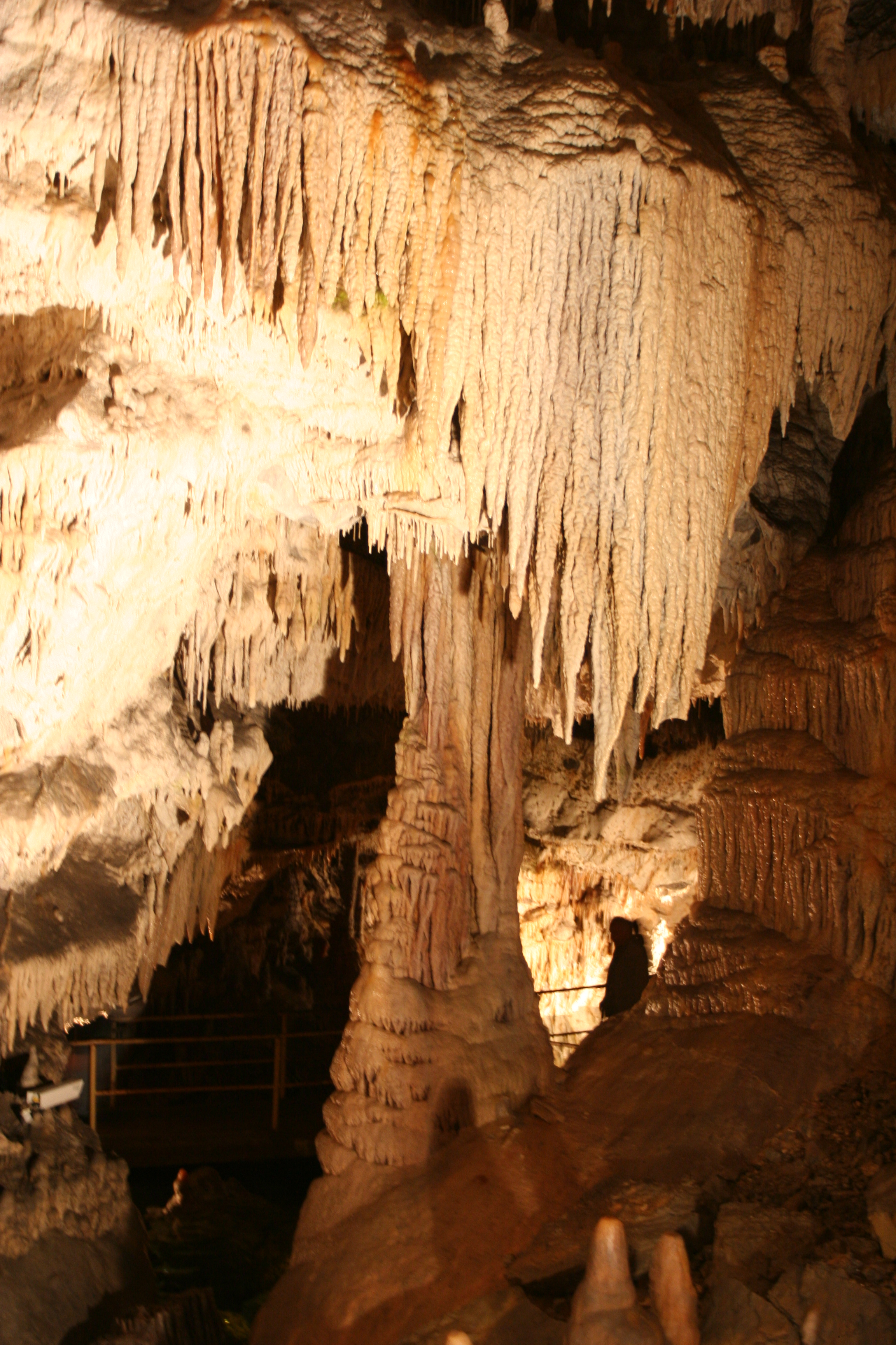 Demänová Cave of Freedom (Demänovská jaskyňa Slobody), Slovakia. Taking this photo was made possible through the financial support of Wikimedia Polska.